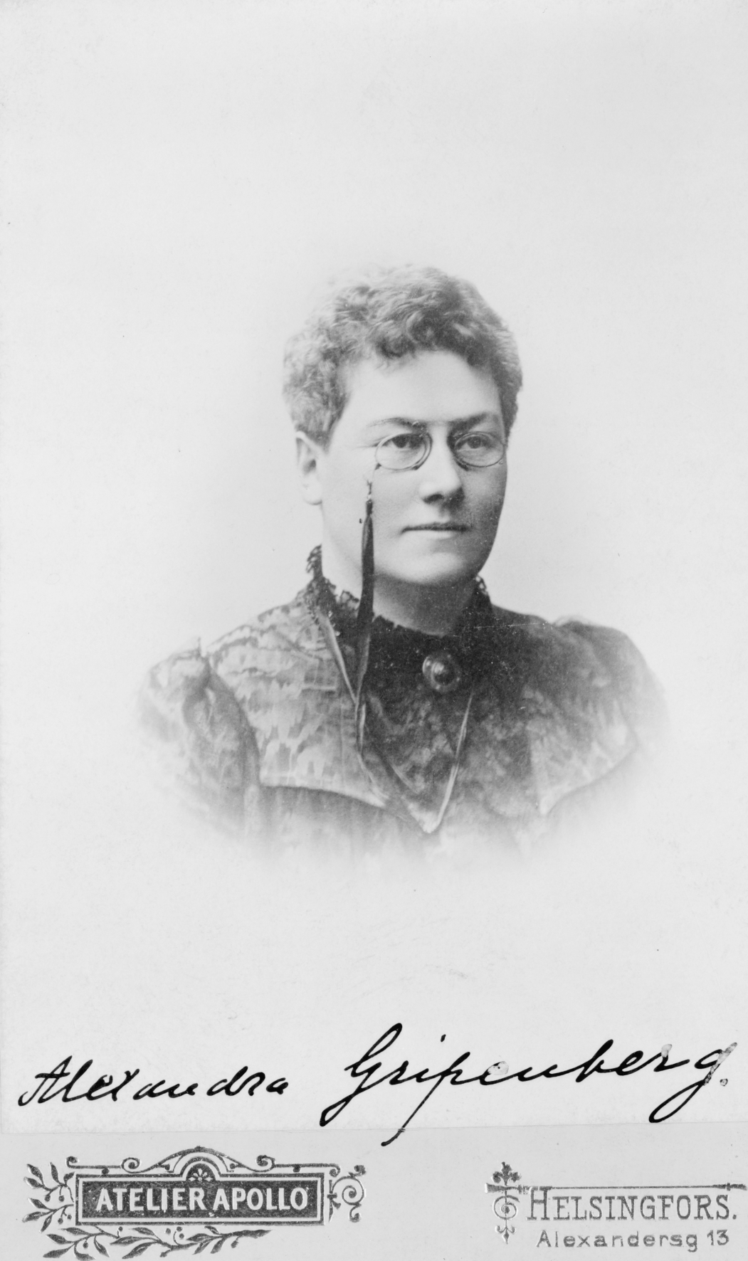 Baroness Alexandra Gripenberg, Finnish author and feminist, head-and-shoulders portrait, facing right.